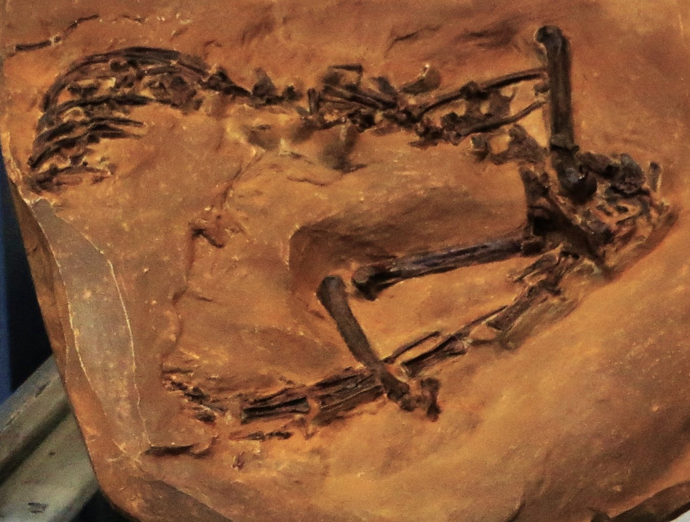 Crop of file in filename